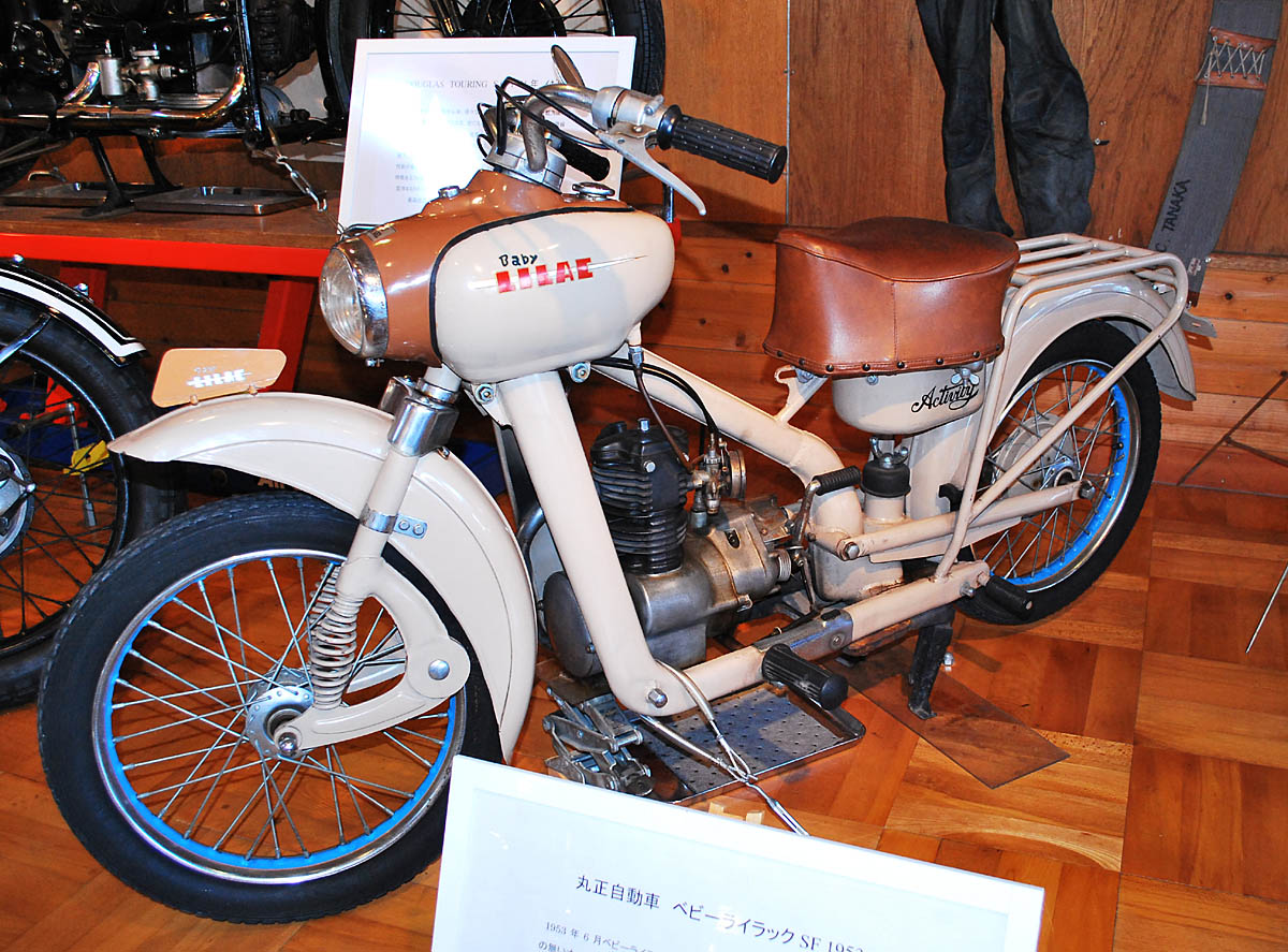 Marusho Babylilac SF (1953)